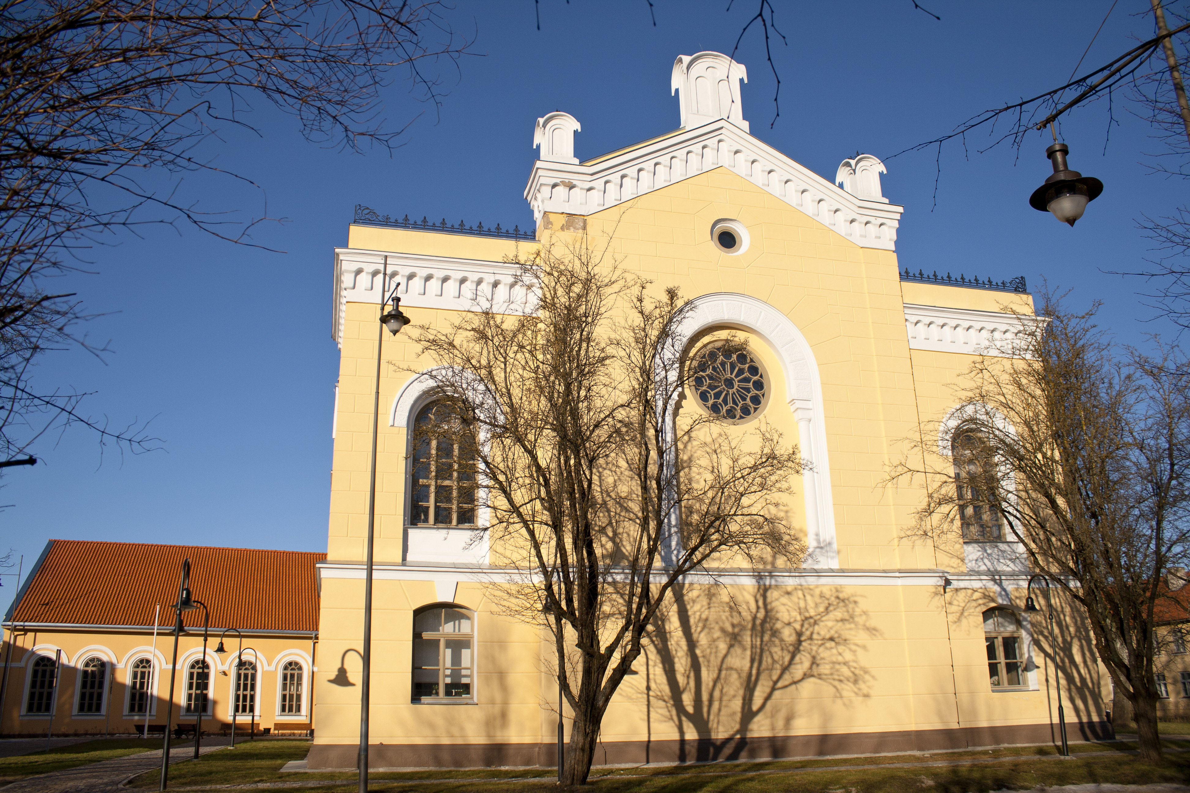 Former sinagogue in Kuldīga, now libraryLatviešu: Bijusī Kuldīgas sinagoga, tagad bibliotēka